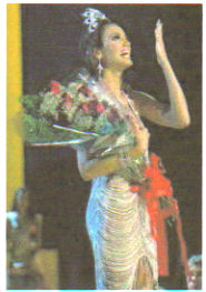 Thriumph Moment.